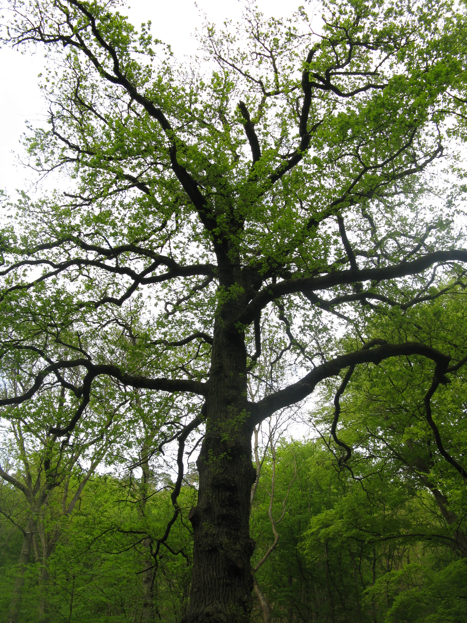 Bodewig oak, Konder Valley, Germany Bodewig-Eiche, Kondertal/Deutschland